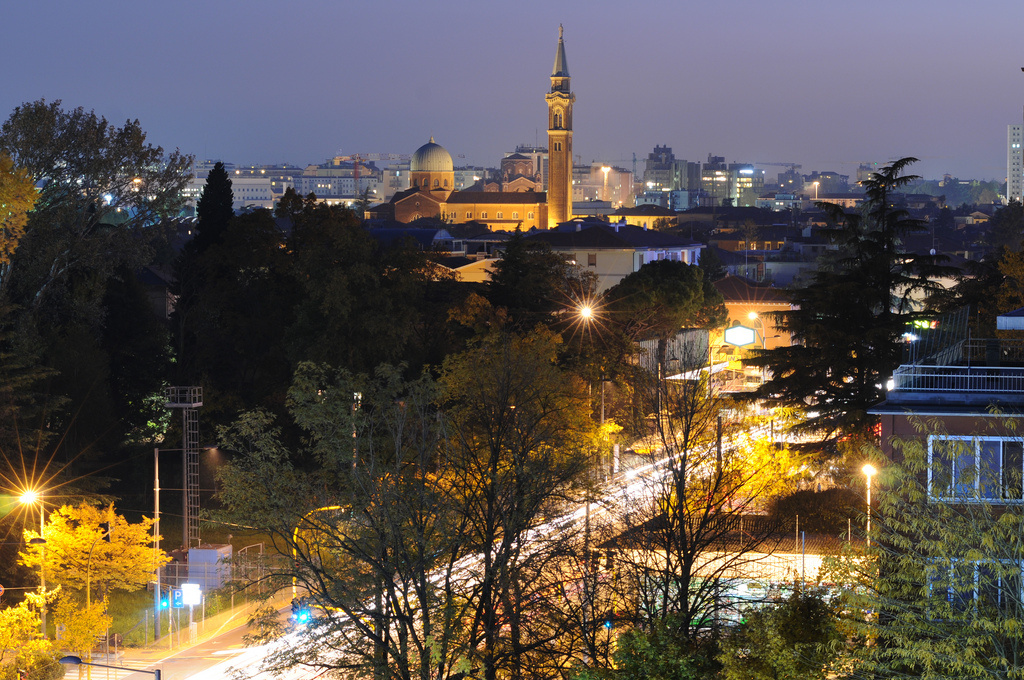 Arcella by night